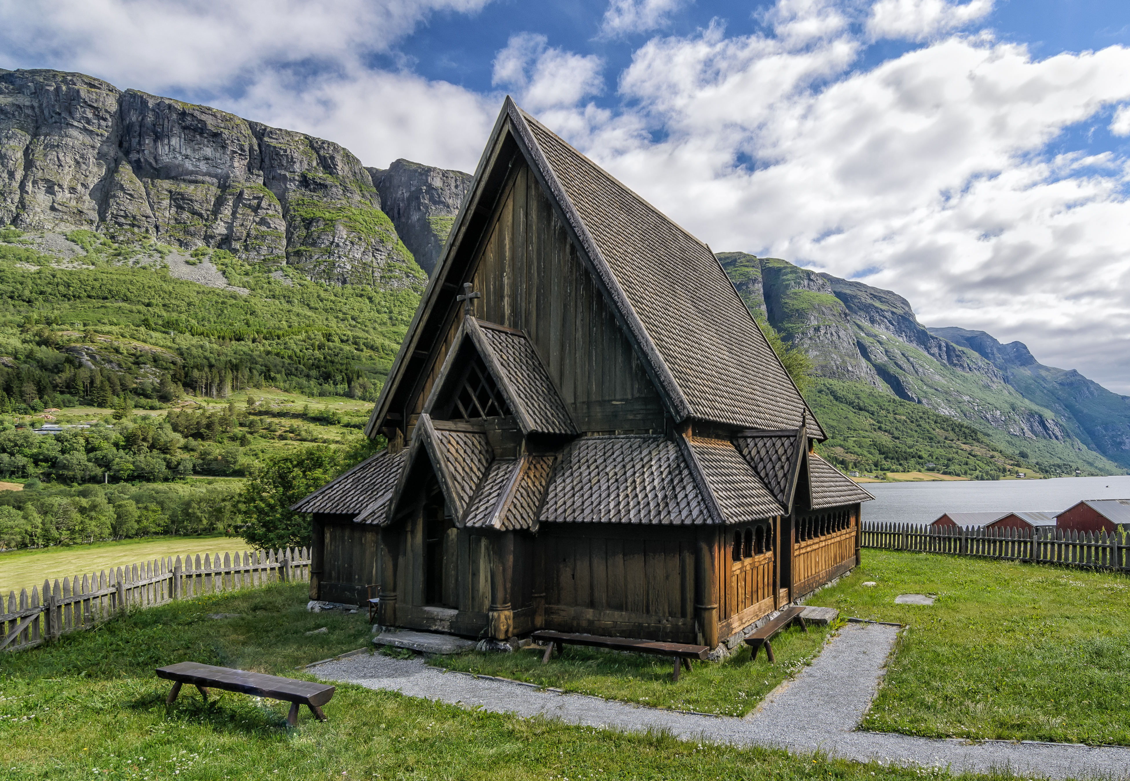 Øye stave church in Øye, Vang, Oppland county, Norway.